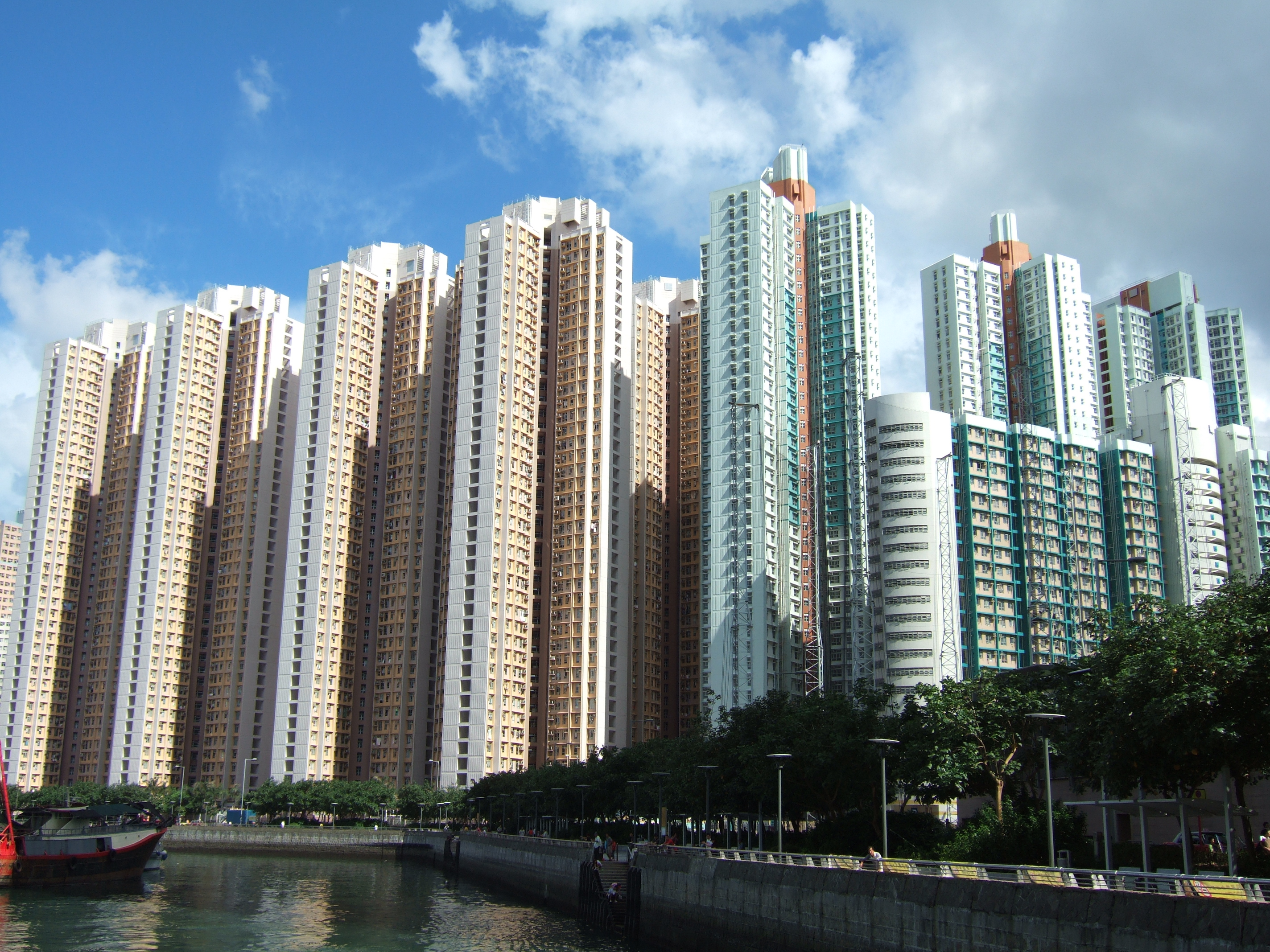 Photo of Tung Yuk Court and Tung To Court